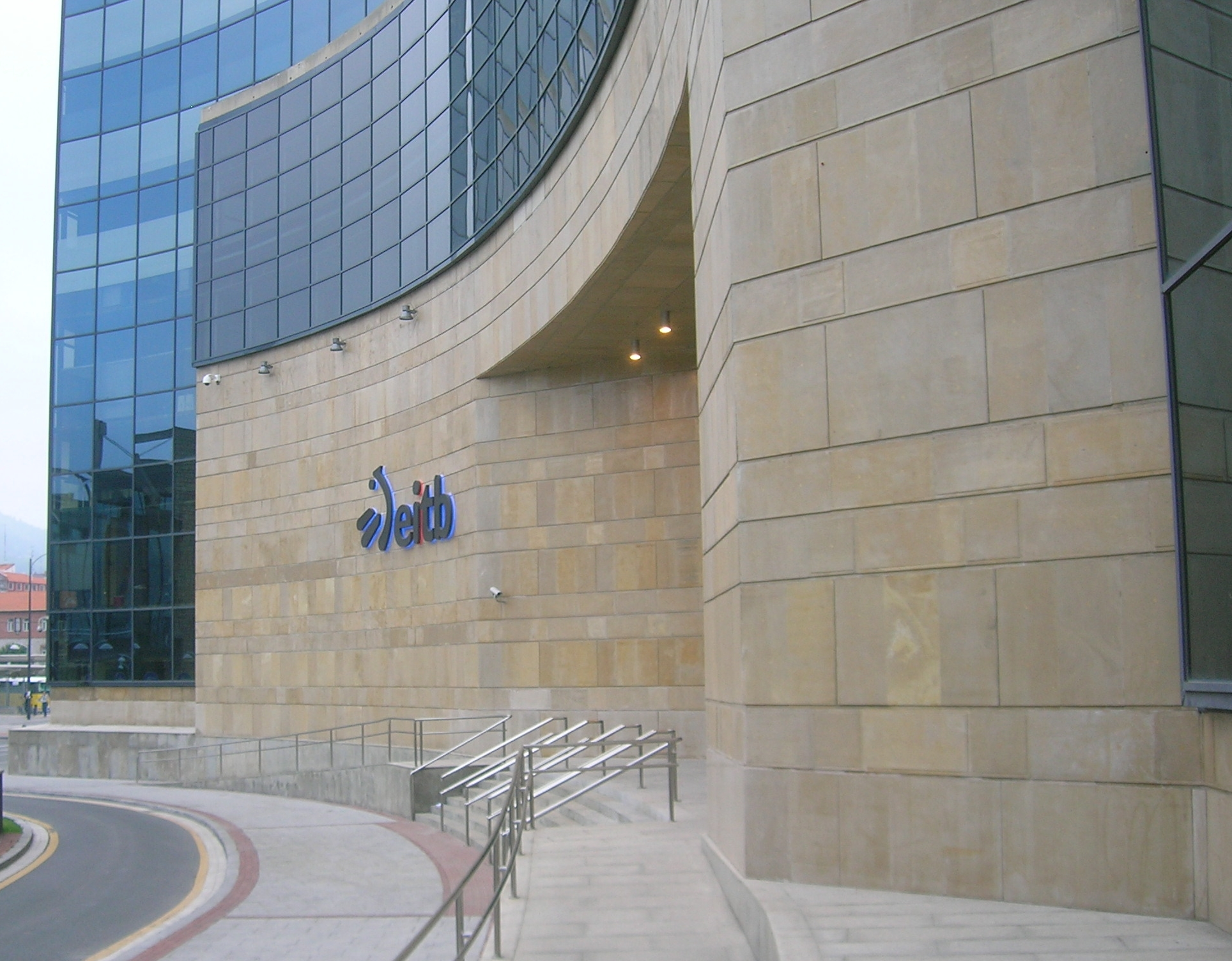 Main entrance to Euskal Irrati Telebista premises in Bilbao.